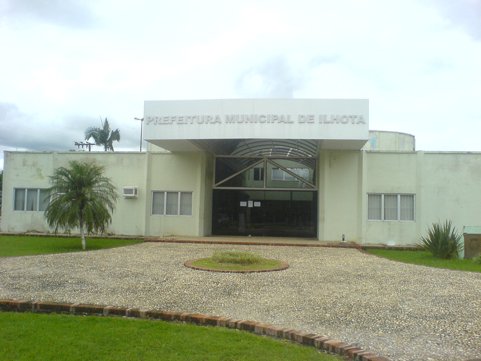 City Hall of Ilhota, SC, Brazil